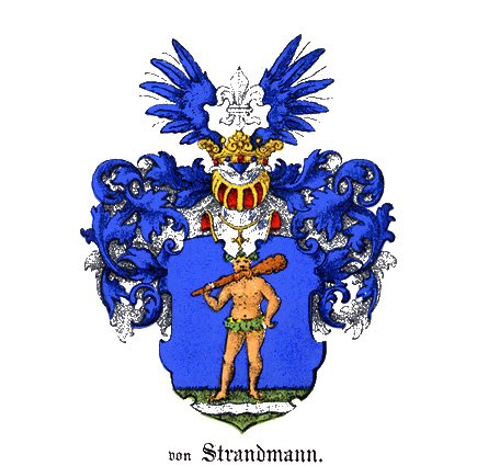 Coat of arms of Strandmann family